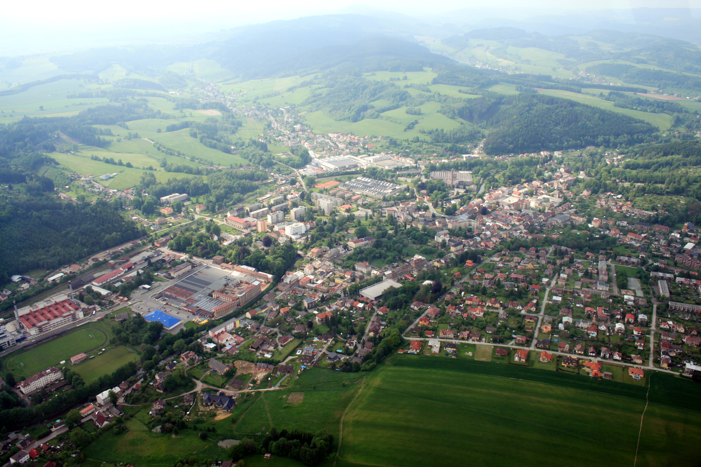 Town Hronov and village Zbečník from air, eastern Bohemia, Czech Republic